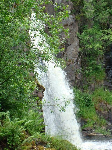 The waterfall of Stalpet in Aneby kommun, Sweden.